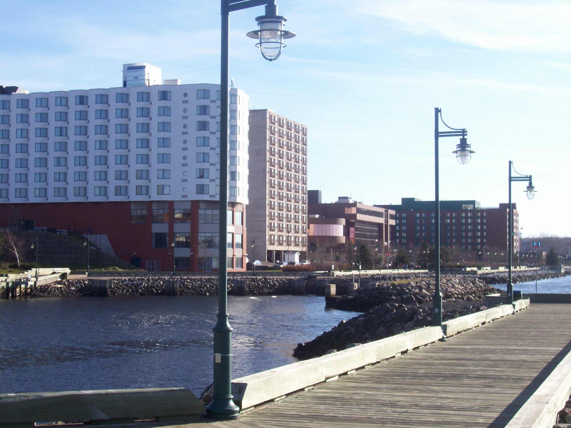 Sydney, Nova Scotia (photo taken by me)